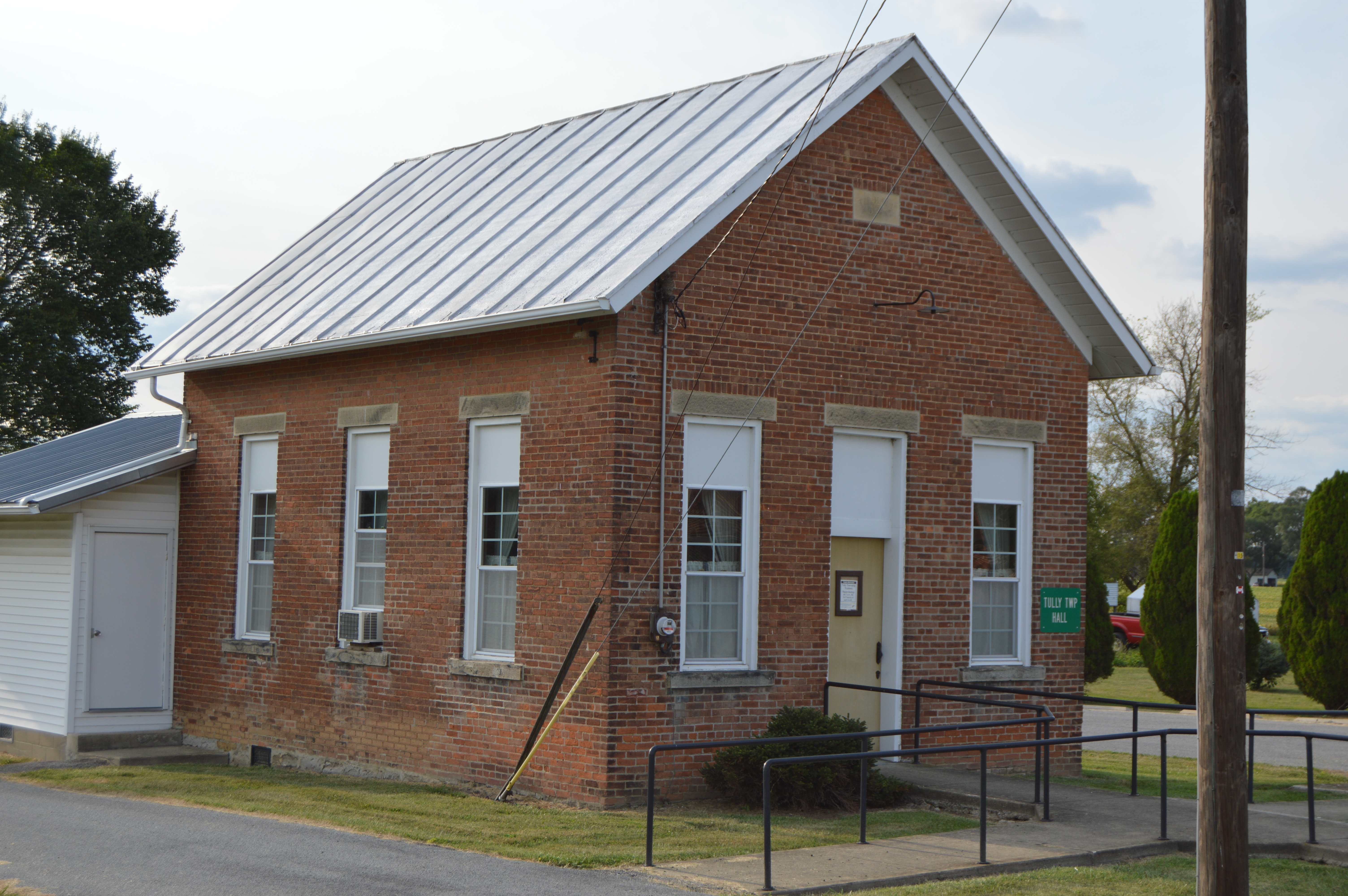 Front and southern side of the Tully Township hall, located at 4203 Martel Road in Martel, Ohio, United States. It was built in 1880.